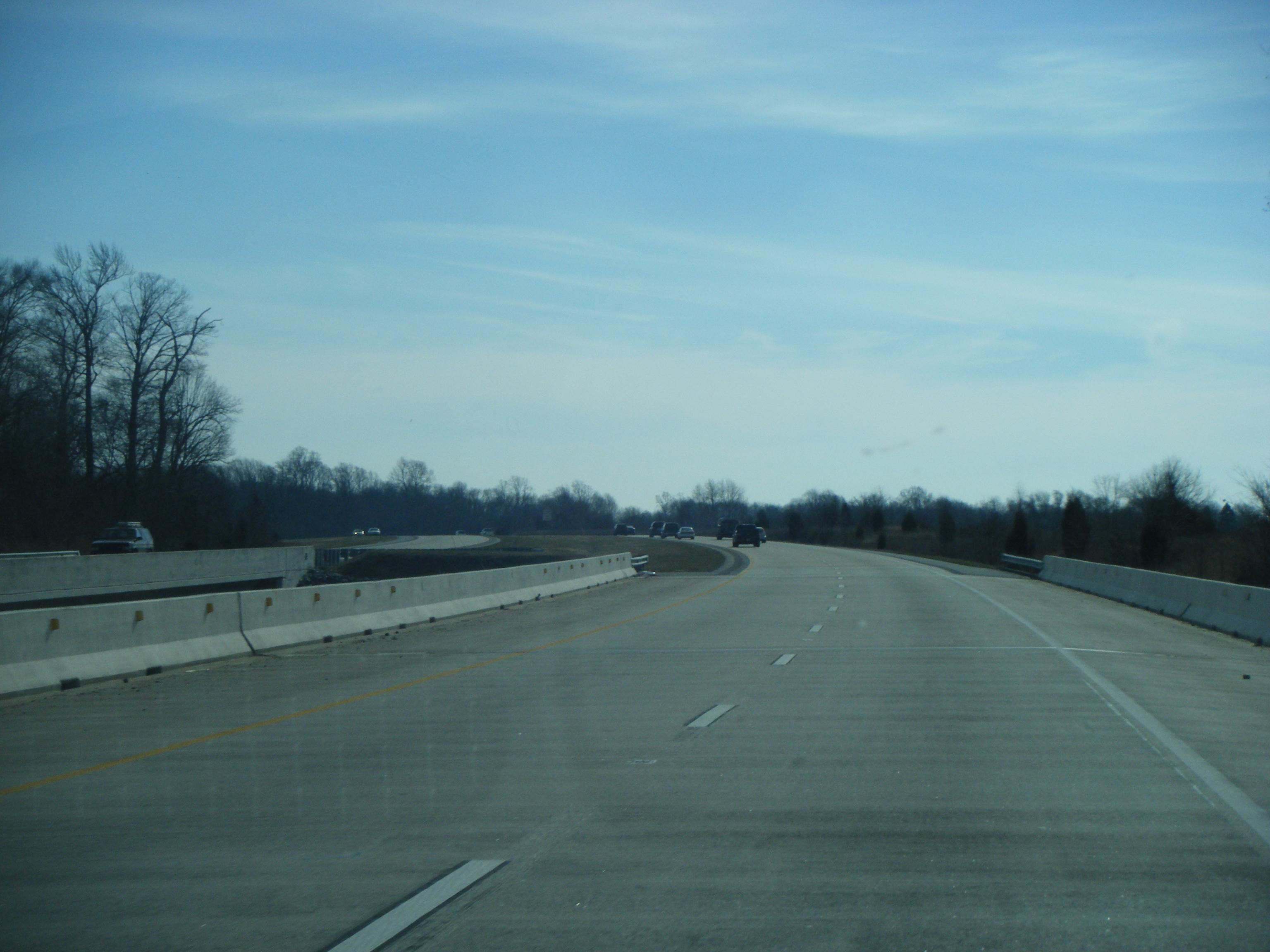 Southbound Delaware Route 1 between Smyrna and Dover, Delaware